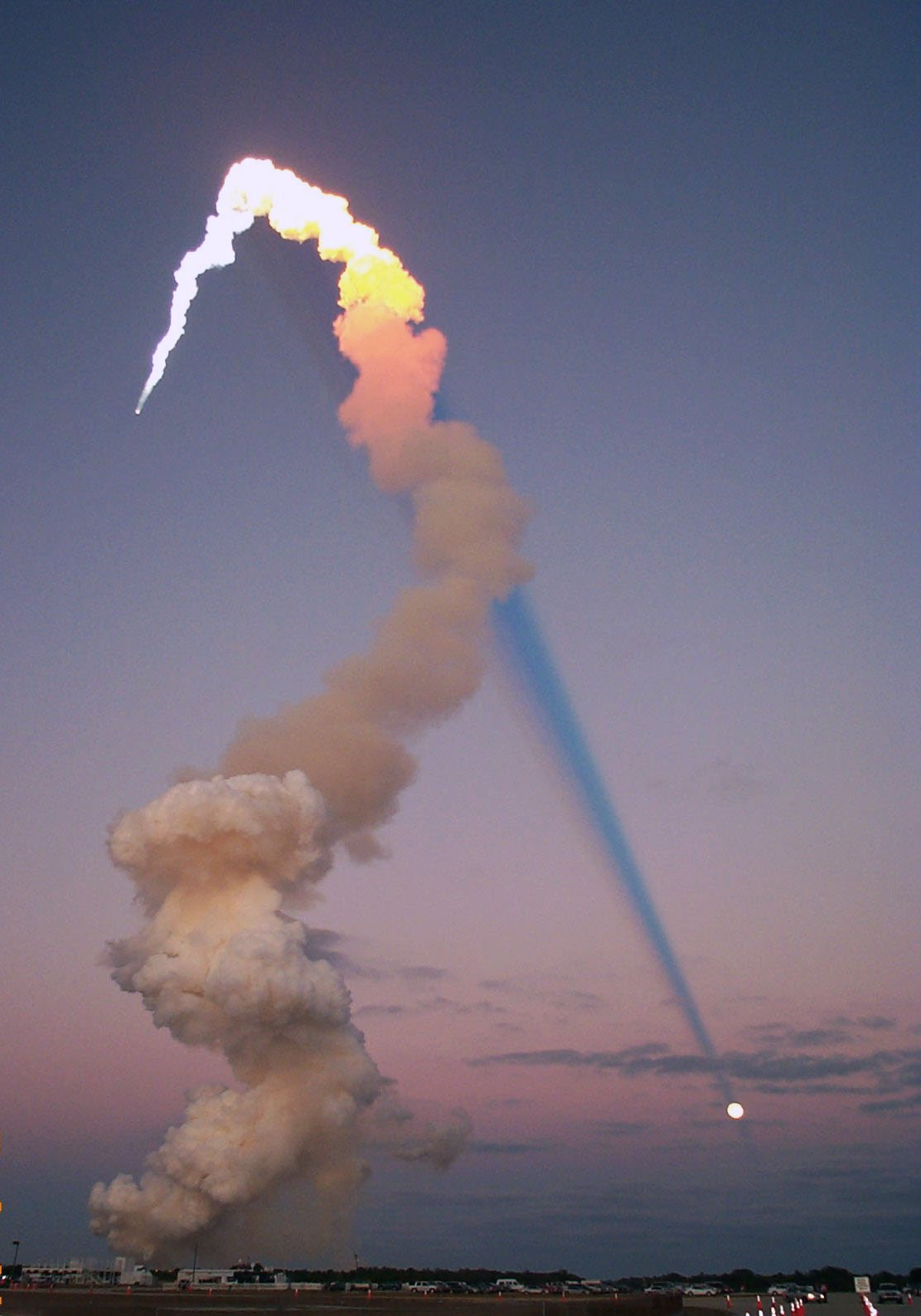 Shuttle Launch at Sunset (Atlantis, February 7th, 2001, STS-98). The sun has set just behind the camera, so only the upper part of the plume is in the glare of the sun. It casts a shadow through the Earth's atmosphere that seems to stretch towards the moon, which is nearly full and thus almost exactly opposite the sun in the sky. The Earth's shadow is also visible, as a dark band of sky below the Moon.